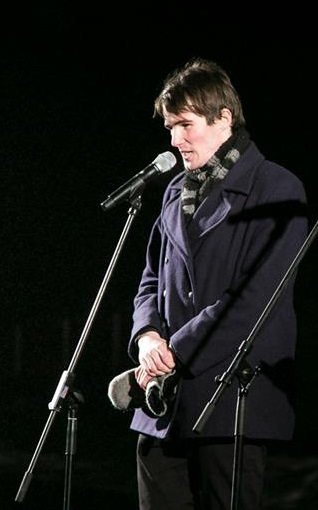 Ruuben Kaalep at the Estonian nationalist torchlight march in 2015.